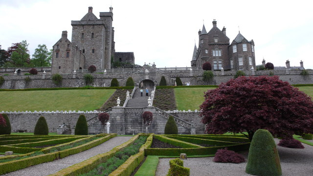 Front elevations of the old and the new at Drummond Castle This photograph gives a good view of the terrace and ornamental steps descending to the gardens below. The public entrance to the gardens is through the courtyard (unseen) adjacent to the old tower on the left.